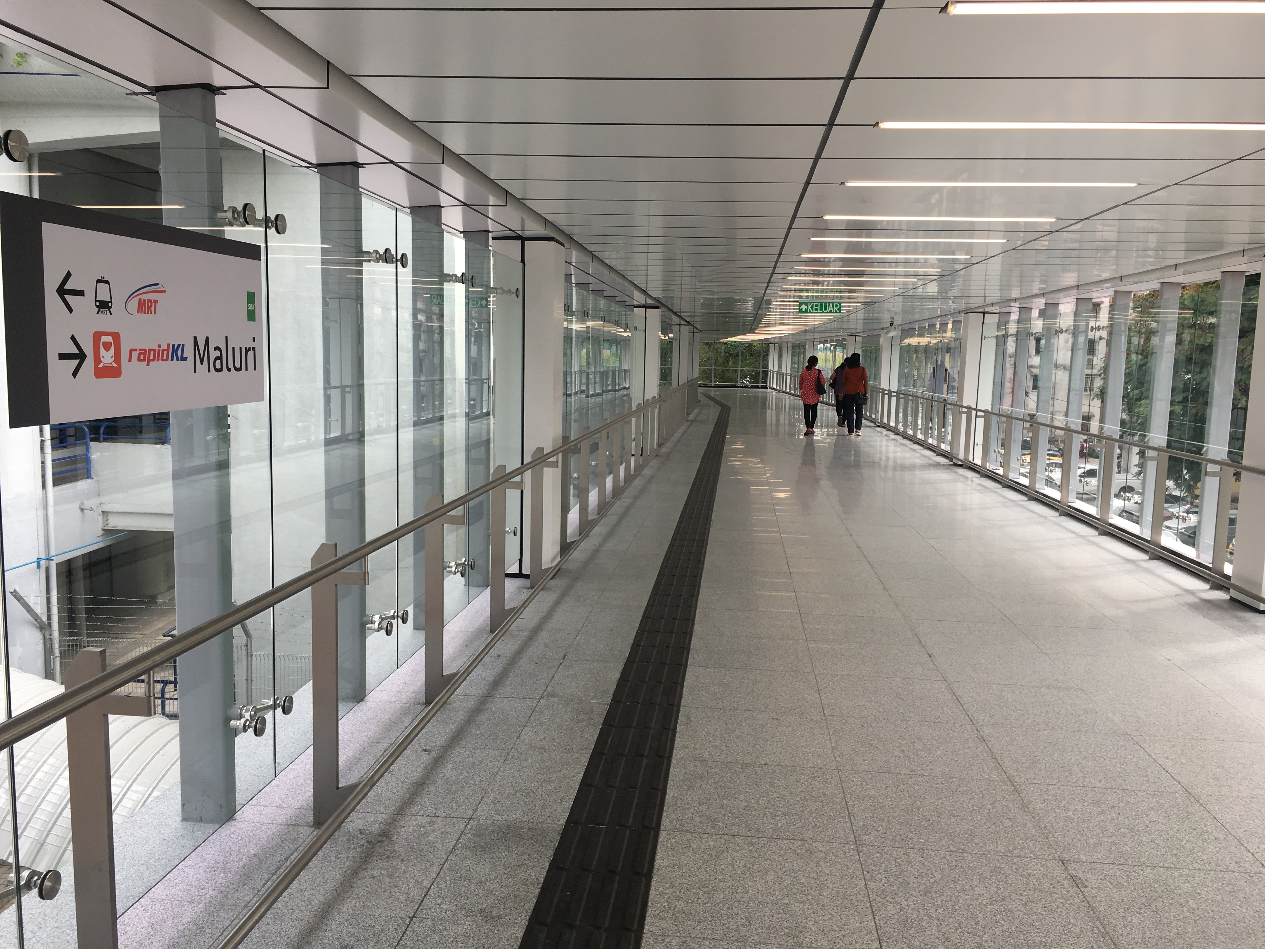 Maluri MRT to LRT linkway.